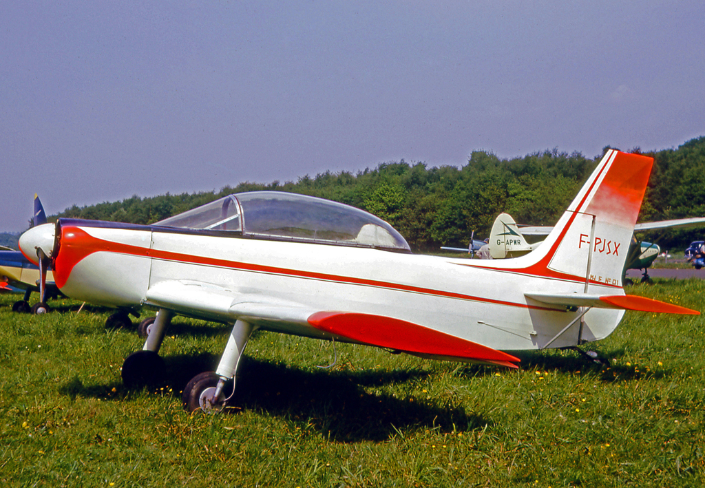 The prototype Jurca MJ.5 Sirocco at Biggin Hill airfield near London in 1965